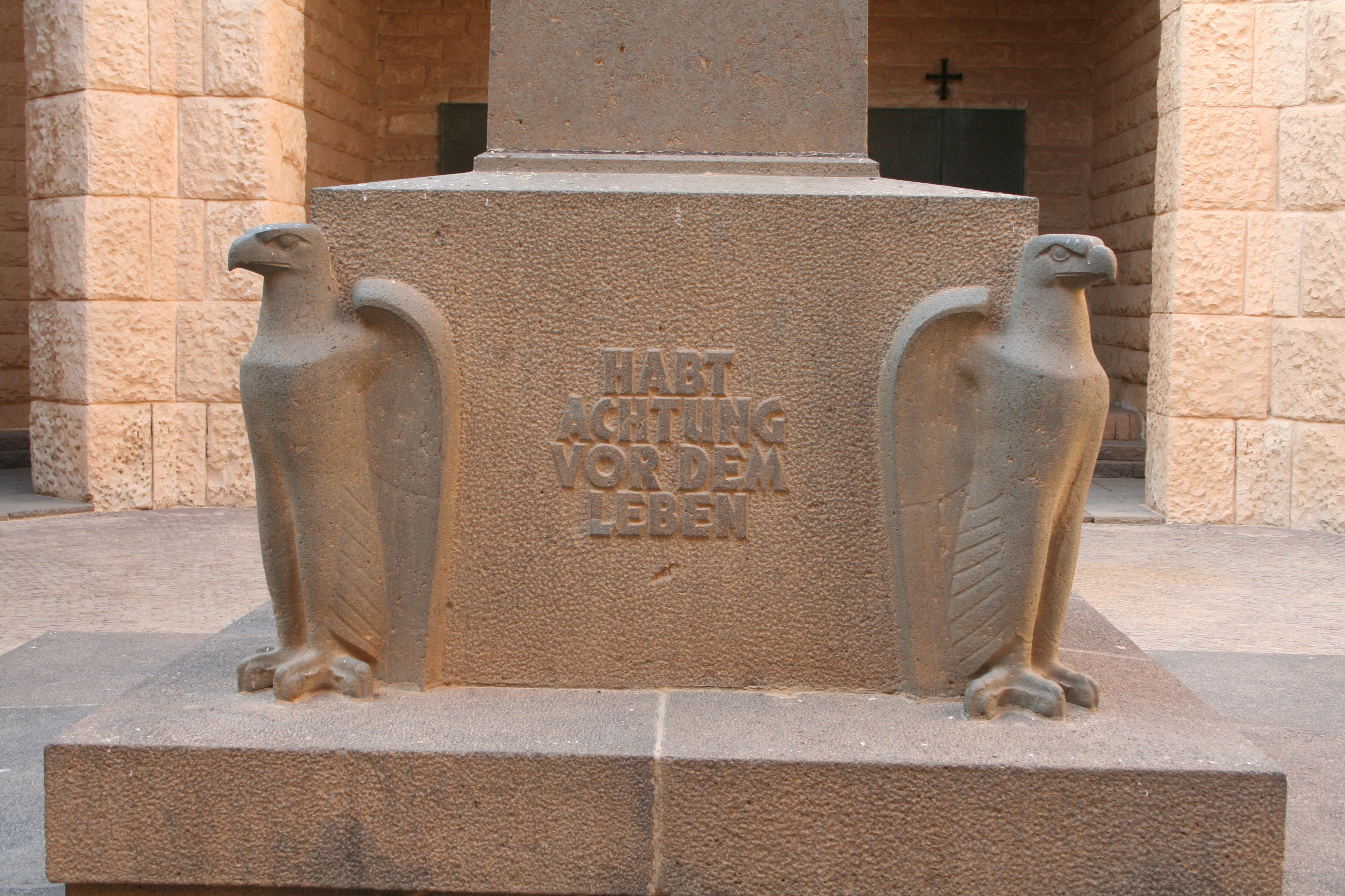 El Alamein German Cemetery